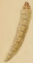 Stainton’s Natural History of the Tineina (1855–1873): Elachista subnigrella larva